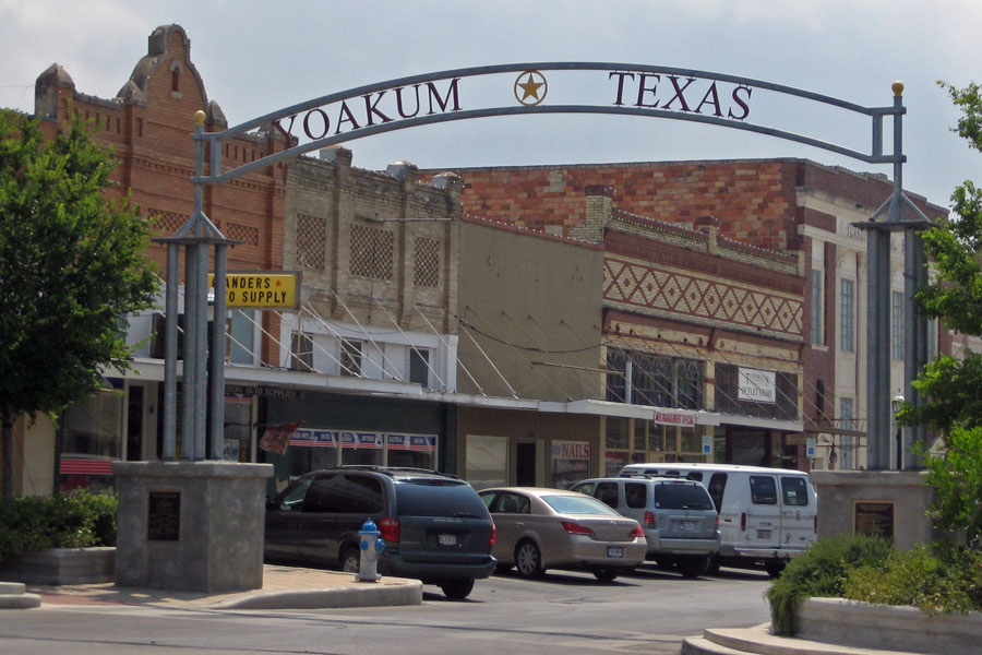 The city center Yoakum, Texas.